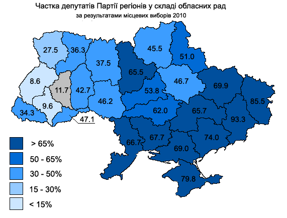 Share of Party of Regions' deputies elected to regional counsils, Ukrainian local elections 2010